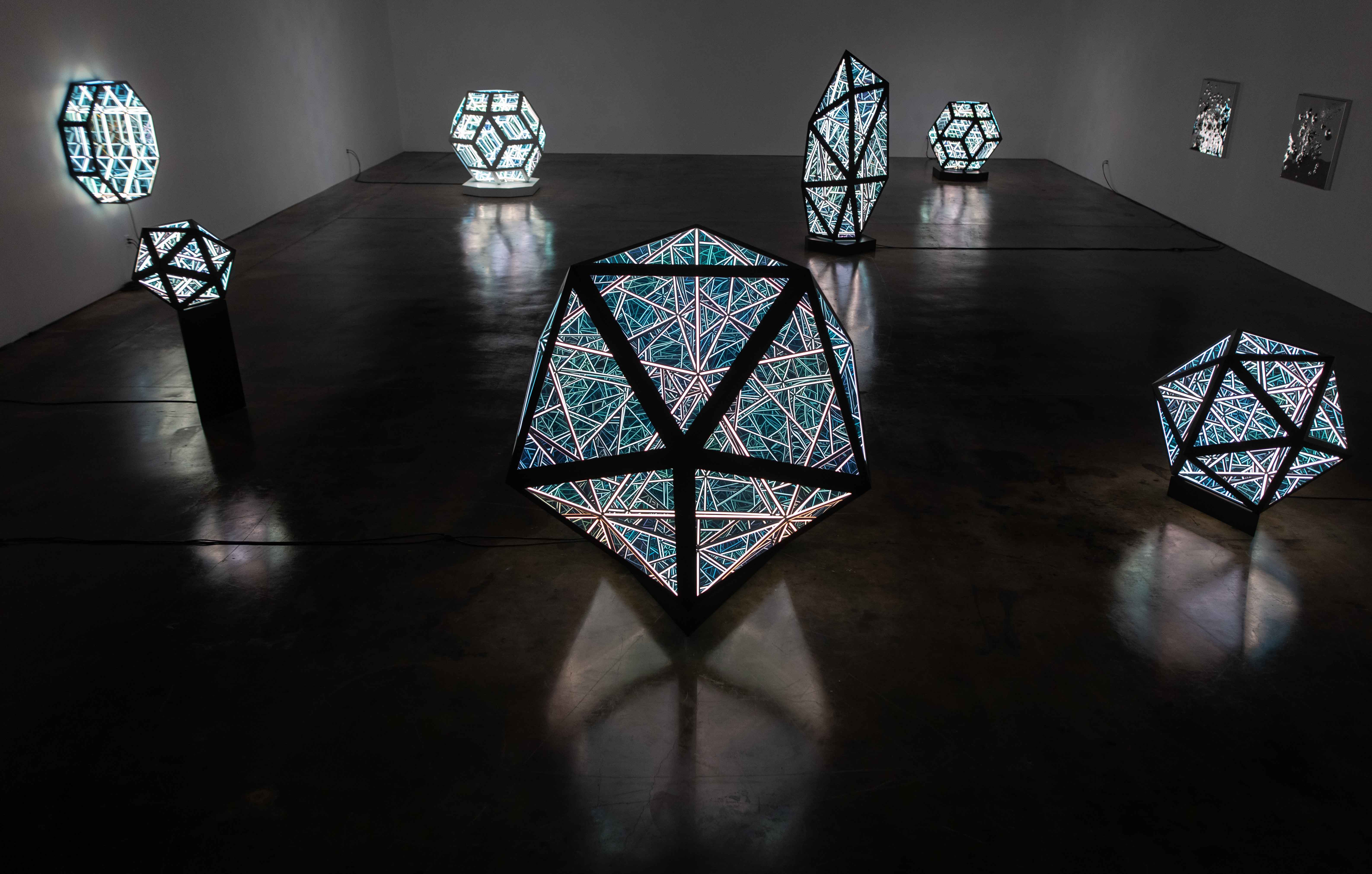 Anthony James Portals Platonic Solids